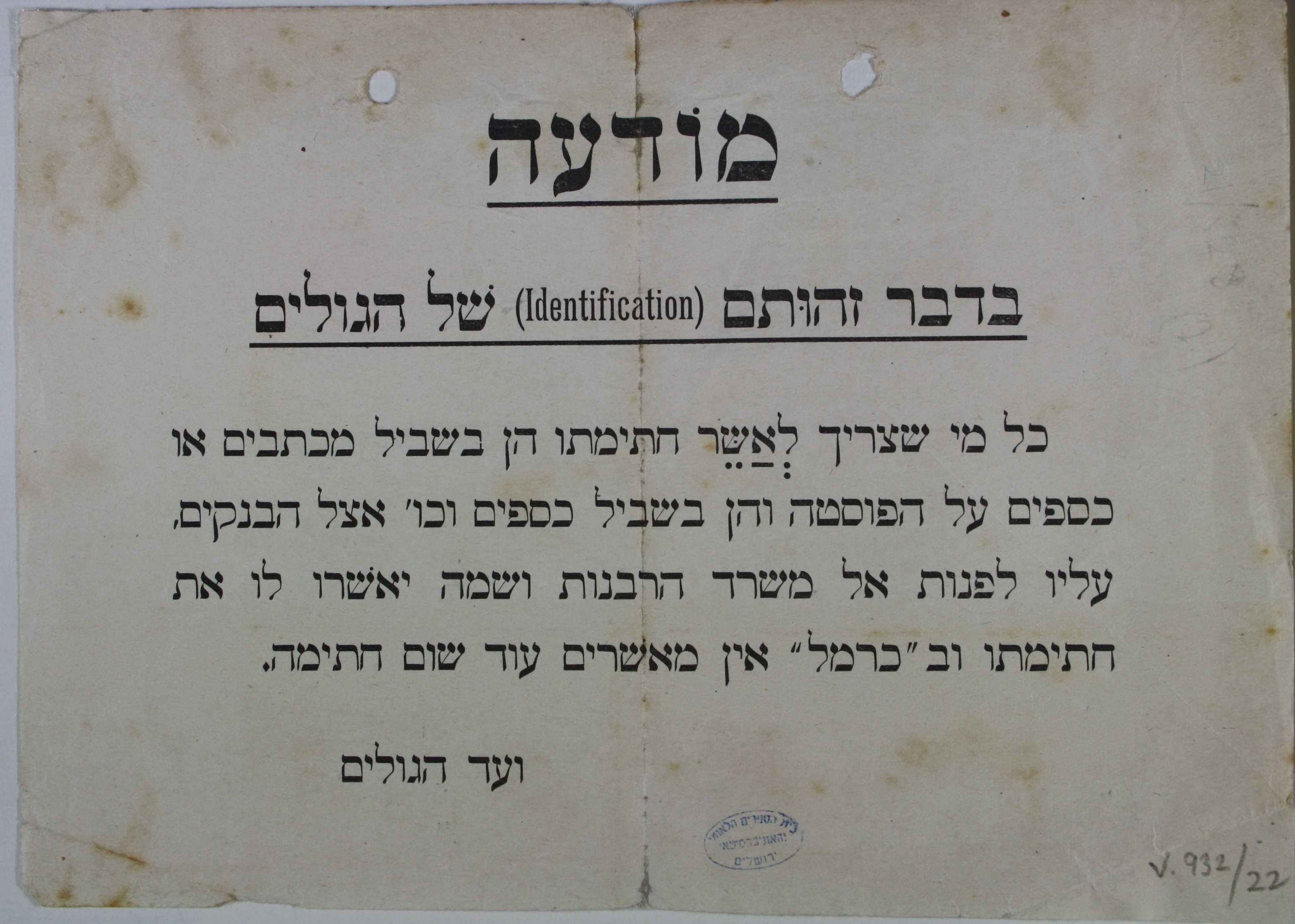 Notice about Identification of Jews deported to egypt 1917